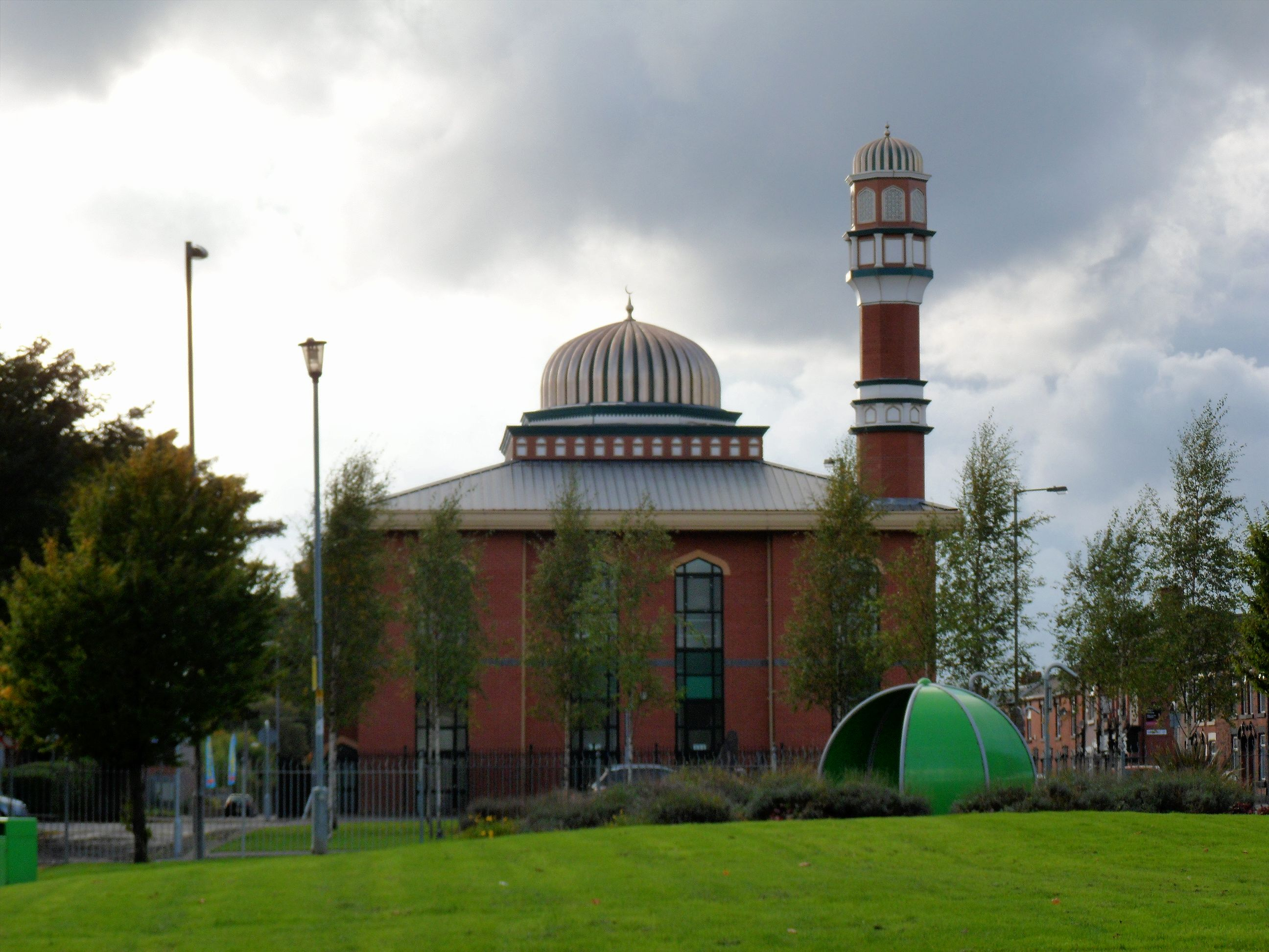 Ashton-under-Lyne in Greater Manchester, England: Masjid Hamza Mosque in West End, on Katherine Street